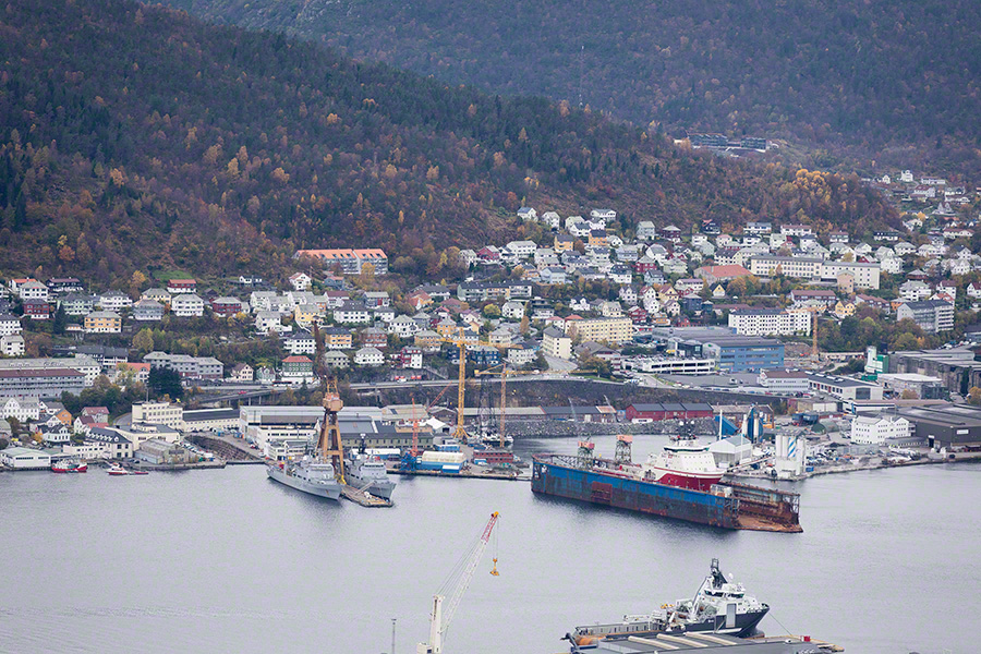 Bergen Group BMV ship wharf at Laksevåg in Bergen